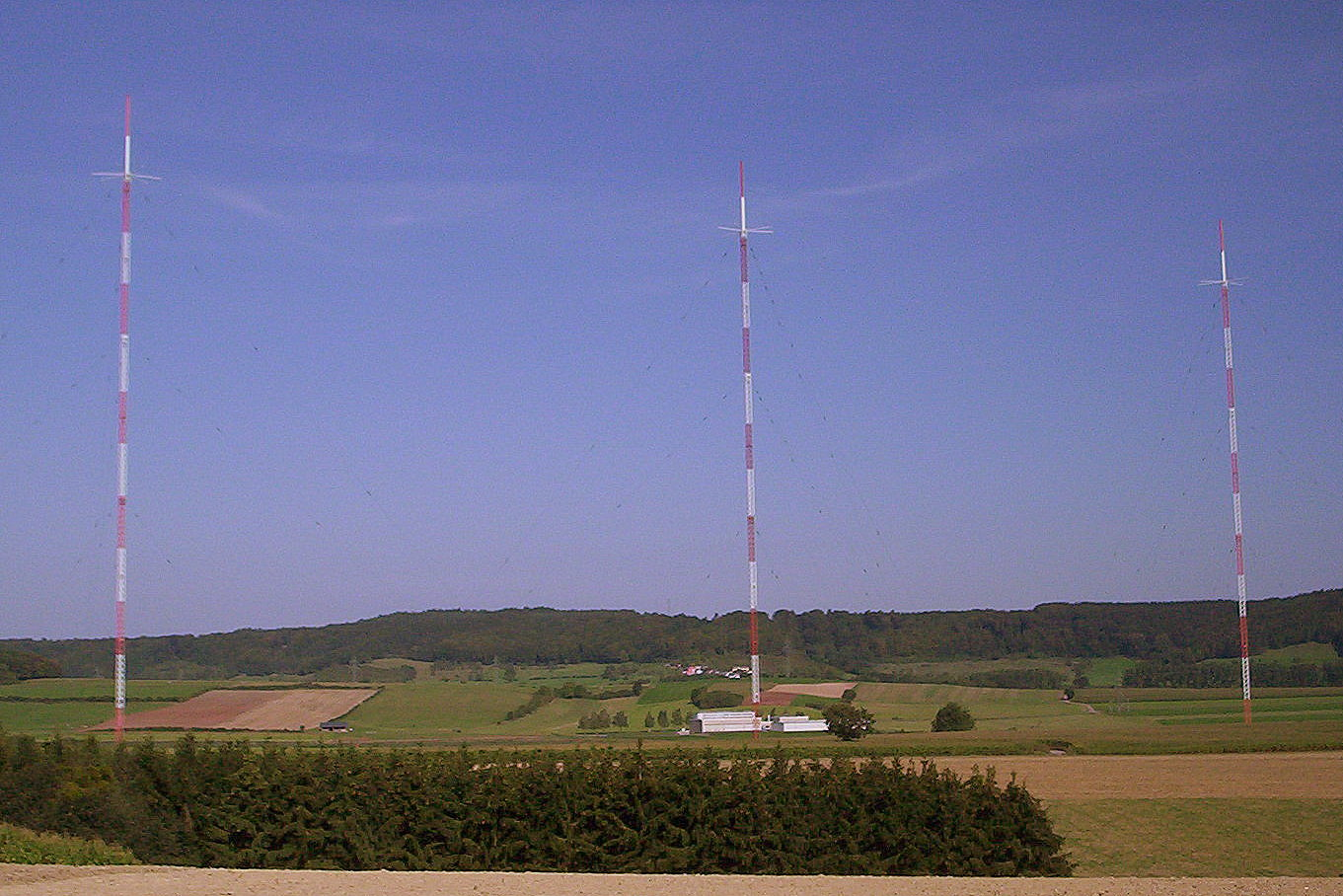 The Beidweiler (Luxembourg) Longwave Transmitter is a high-power broadcasting transmitter for the French-speaking programme of RTL radio on the longwave frequency 234 kHz